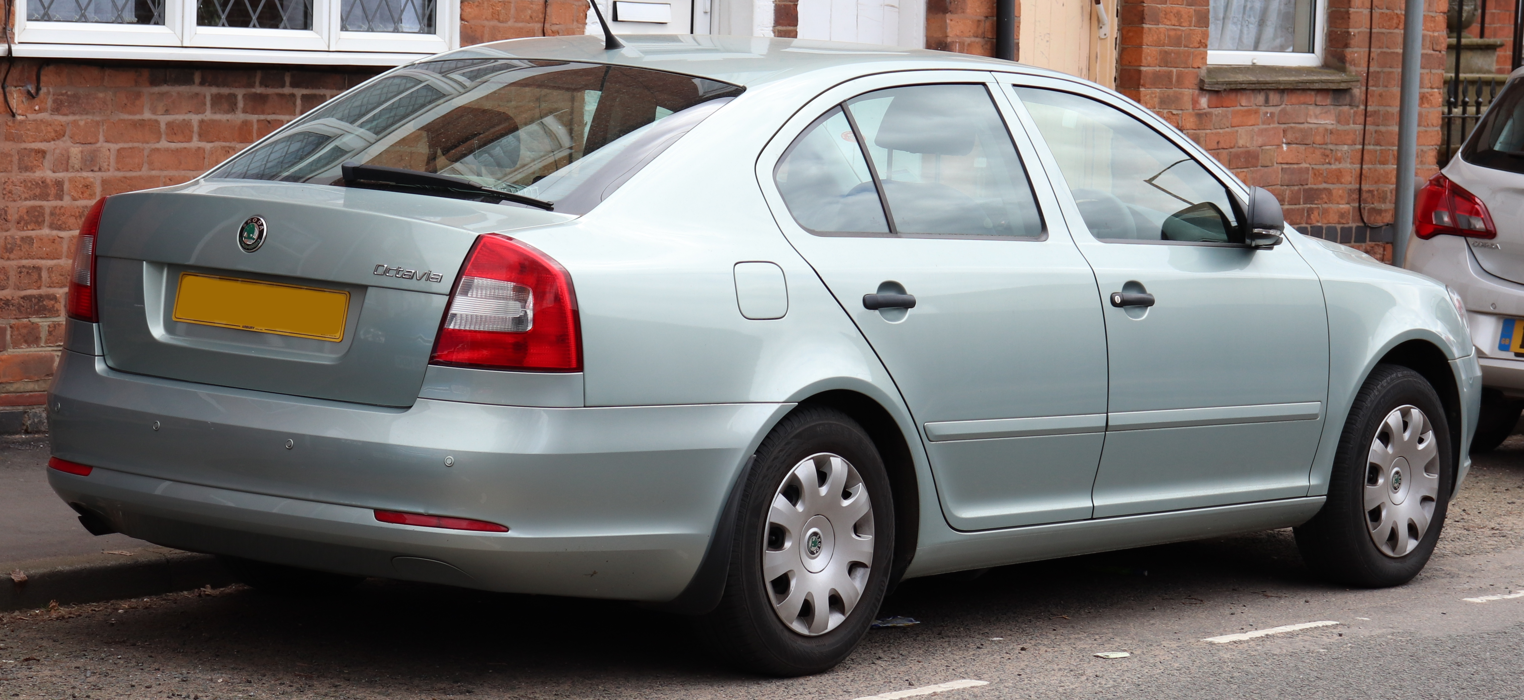 2011 Skoda Octavia S TSi S-A 1.2 Rear Taken in Warwick